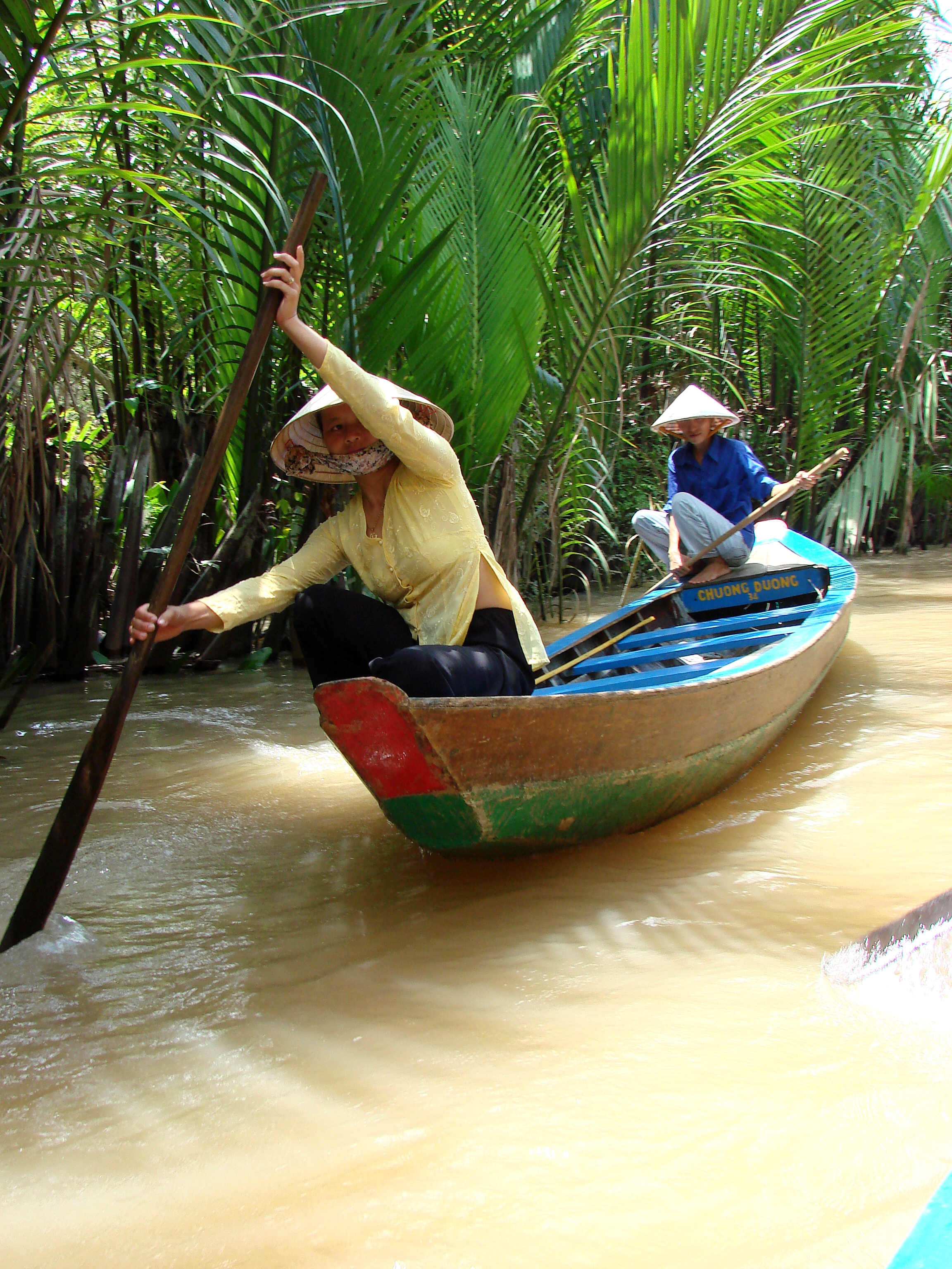 Women rowing along a waterway near My Tho, Mekong delta, Vietnam.